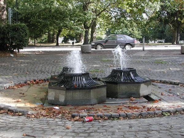 Oval Fountain opposite Oval Tube station Originally designed by landscape architect Georgina Livingston with jets surrounded by loose boulders. This version dates from the 1980s...